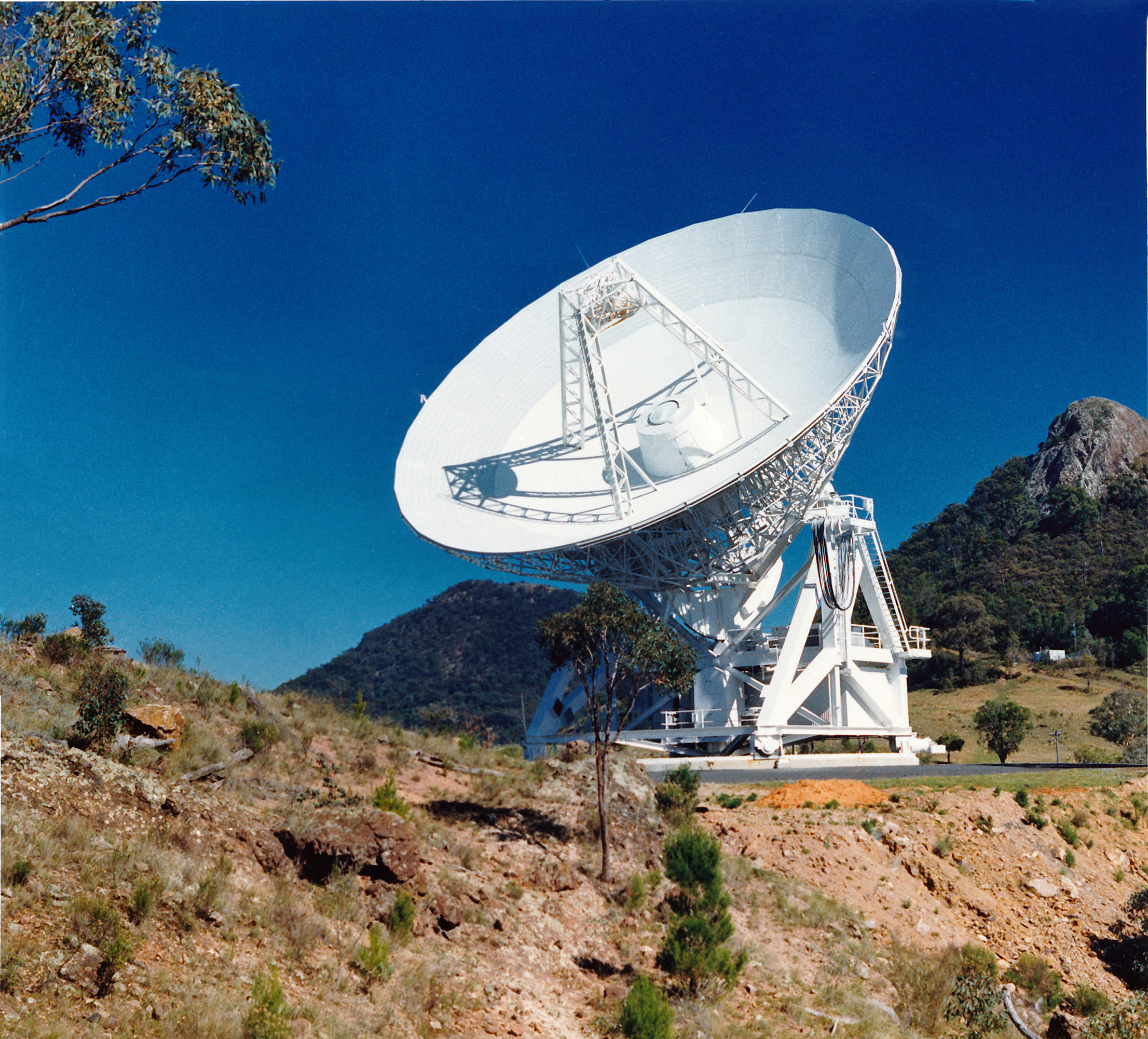 The Mopra Telescope is a 22-m single-dish radio telescope located at the edge of the Warrumbungle Mountains near Coonabarabran, about 450 km north-west of Sydney. It is operated by CSIROs Astronomy and Space Science division